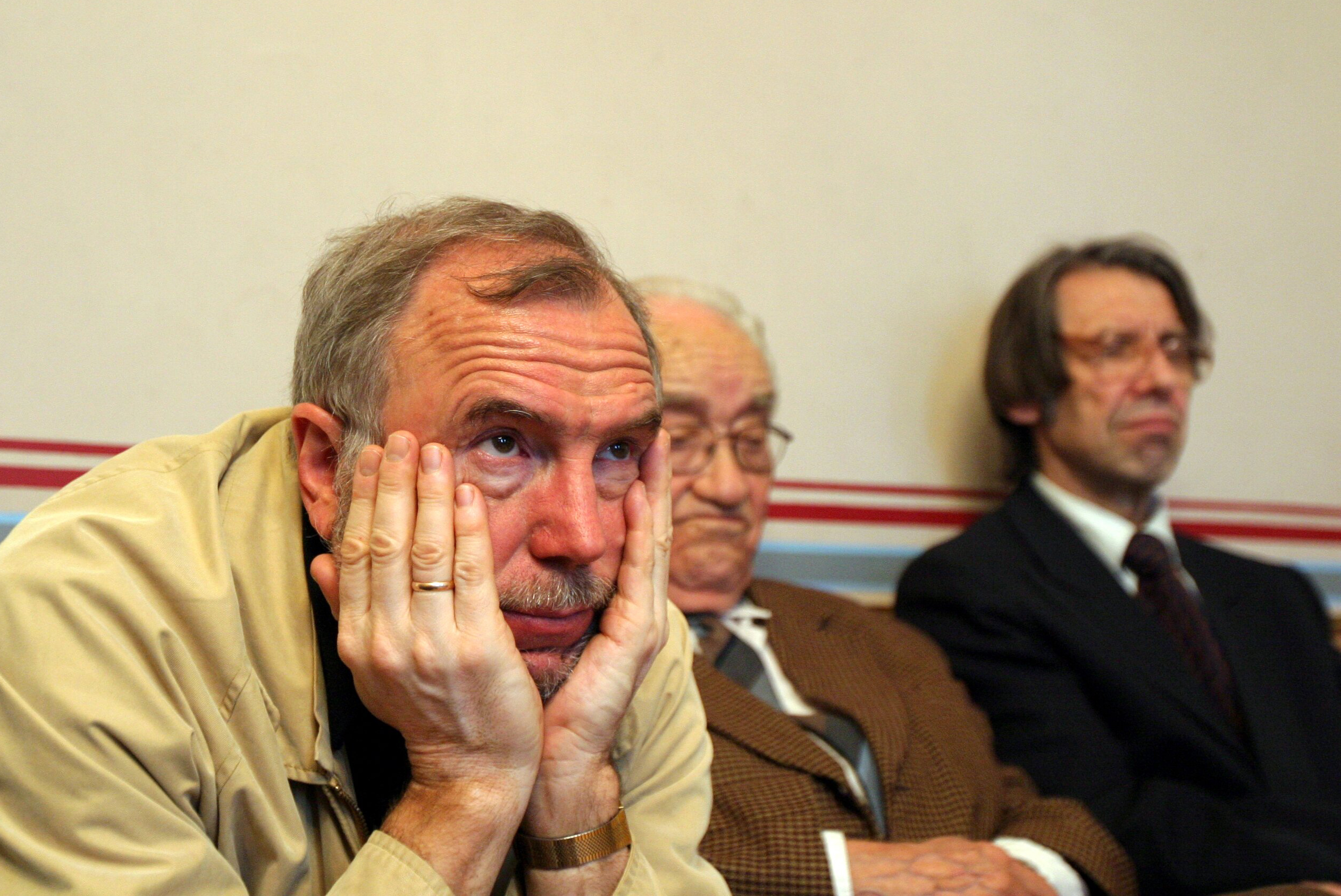 Rein Veidemann, in the background Ilmar Talve and Hando Runnel.